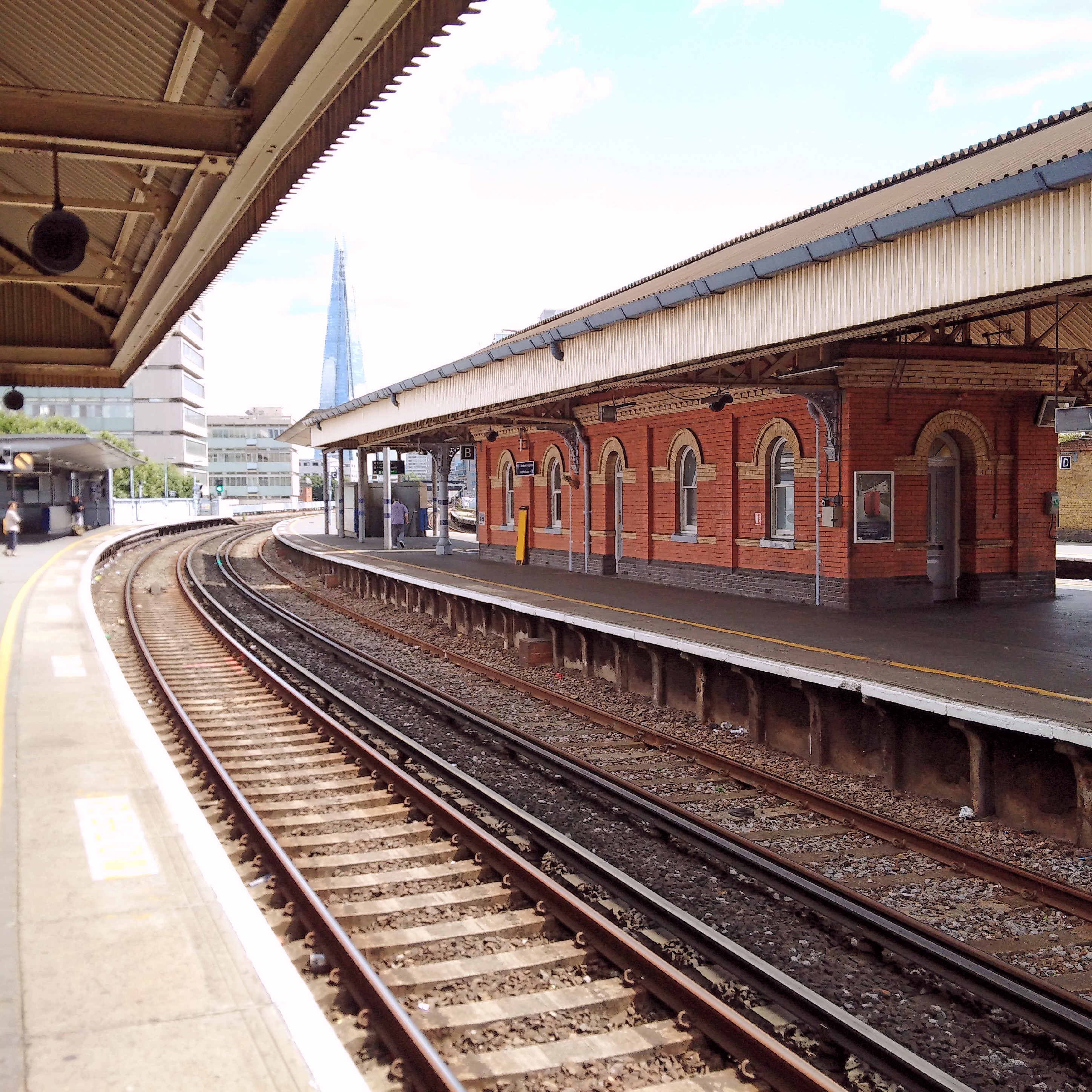 Waterloo East railway station - Platform A view towards the Shard (2015)